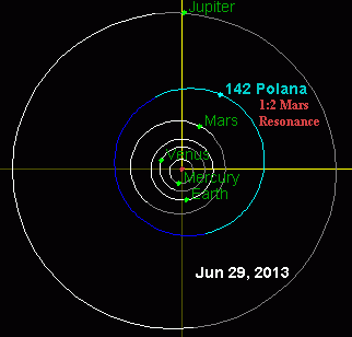 The orbit of 142 Polana compared to Mars and Jupiter. This asteroid is in a 1:2 resonance with Mars.